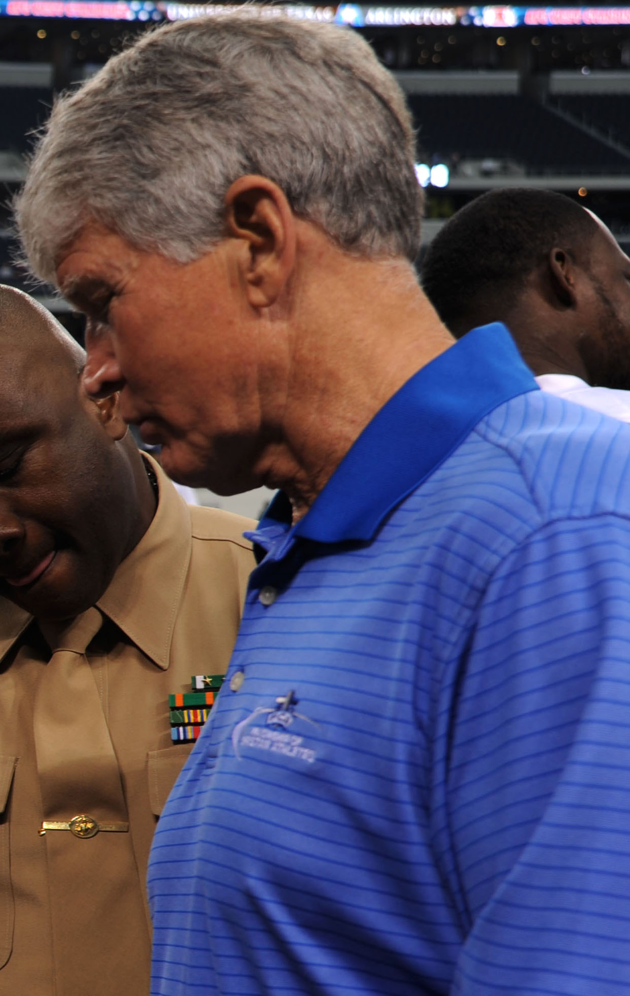 Former Minnesota Vikings head coach Les Steckel